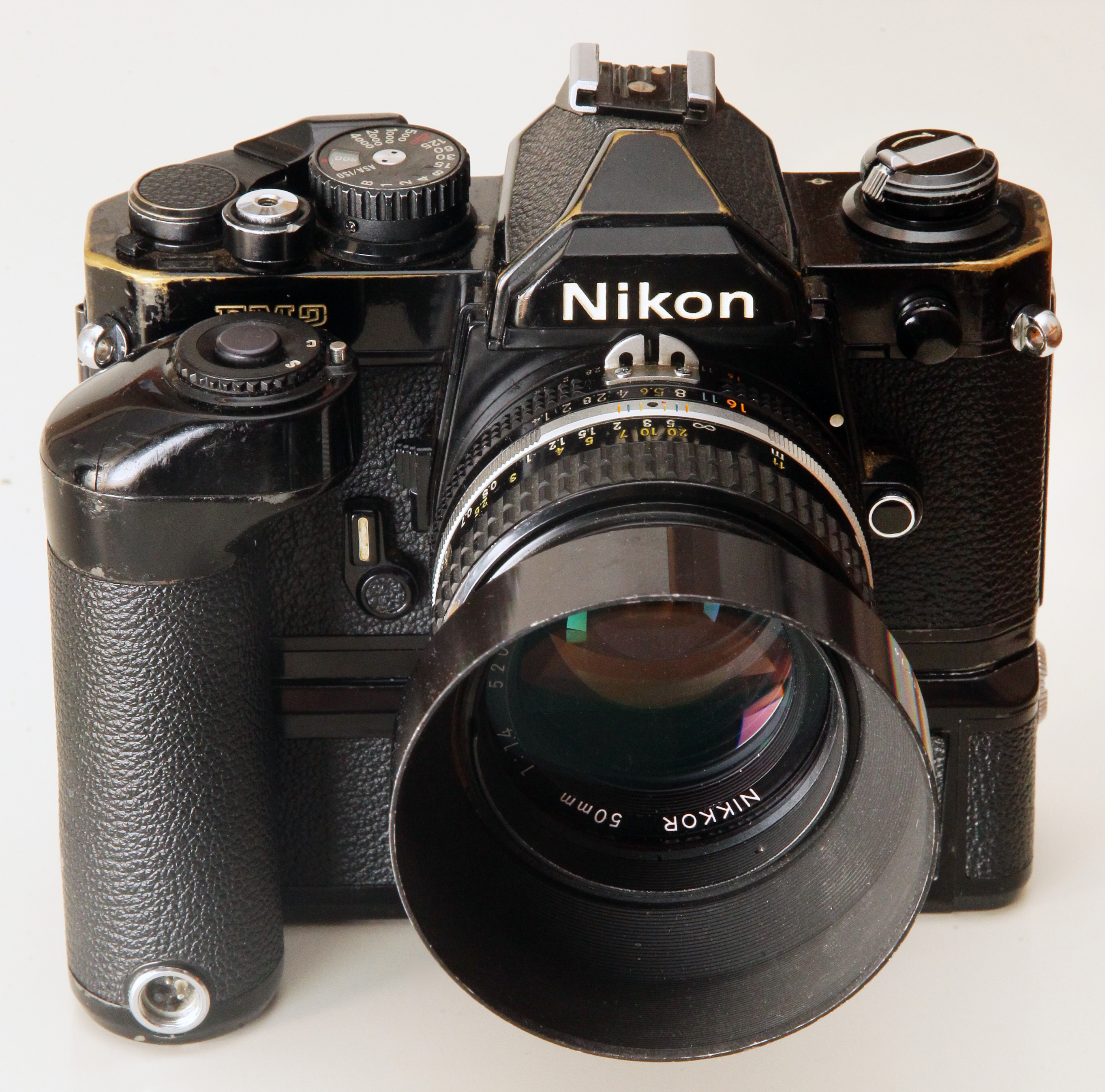 Nikon FM2 SLR with Nikkor 1,4/50 lens and motor drive Nikon MD12.